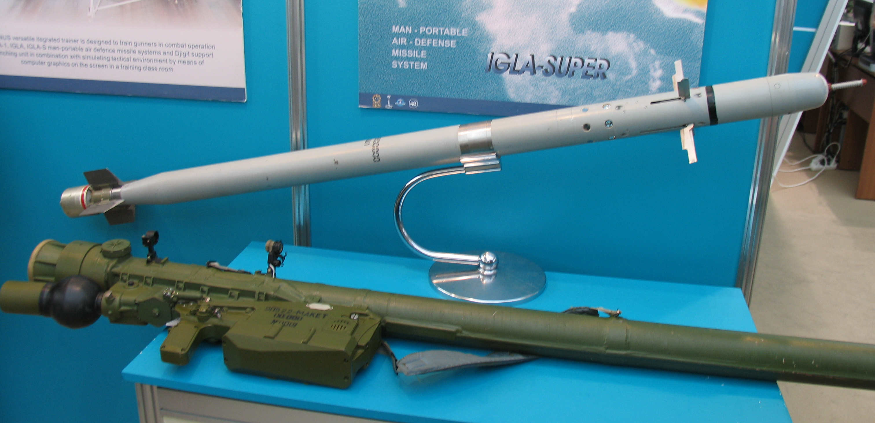 Igla-S